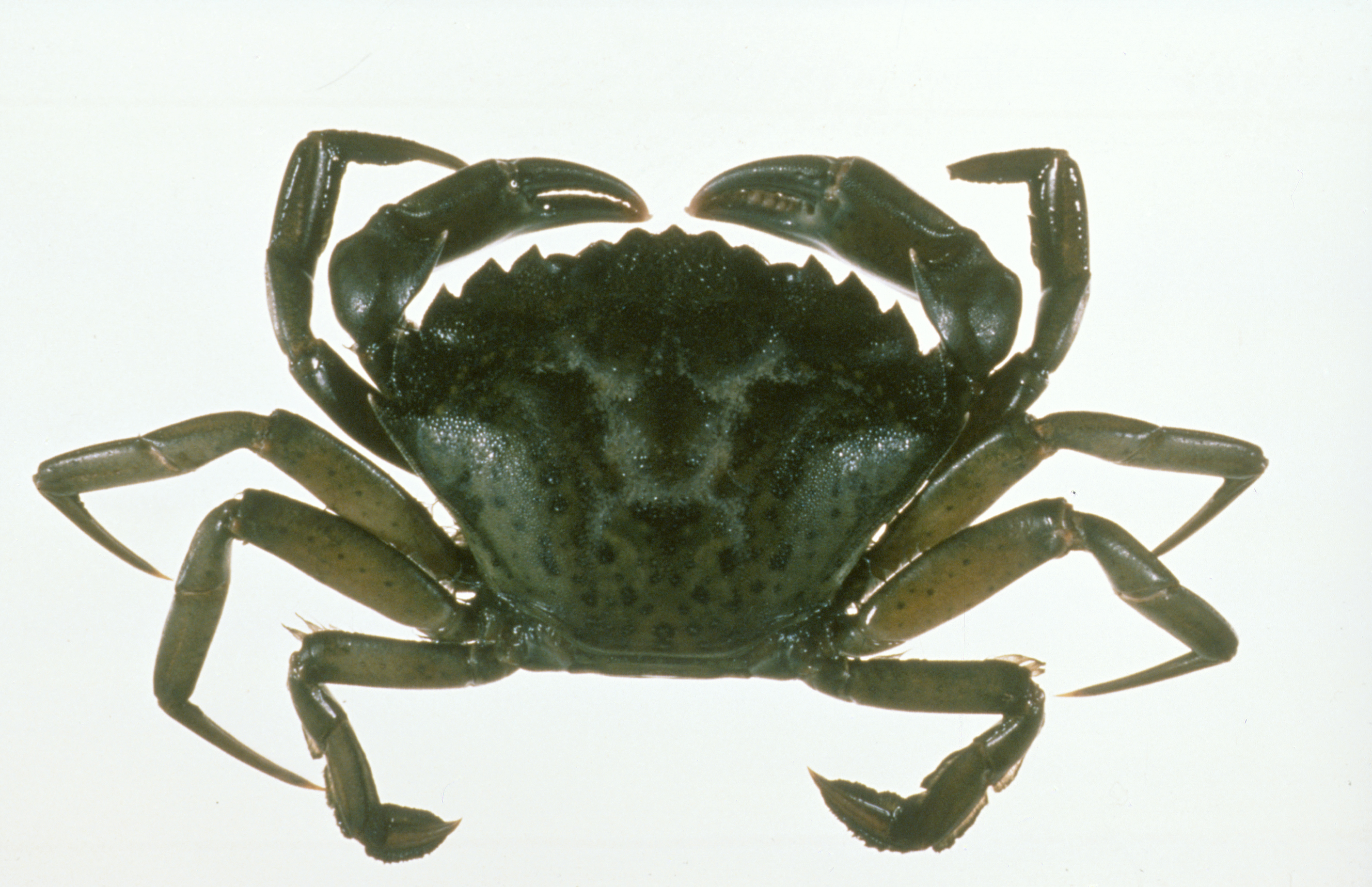 The green crab (Carcinus maenas), a native of Europe, is an introduced marine pest in southern Australian waters. An estimated 170 exotic marine pests have been introduced to Australia, either intentionally for aquaculture, or unintentionally in ballast water or by ship's fouling. Of these, about 10 are regarded as pests. The Centre for Research on Introduced Marine Pests, based at the Hobart laboratories of CSIRO Marine Research, is compiling a 'danger list' of pest species and developing detection kits so that communities can be marshaled to help prevent their spread. Scientists are visiting known pest sites in Australian ports to assess the impact of the pests and estimate the risk of their spreading.